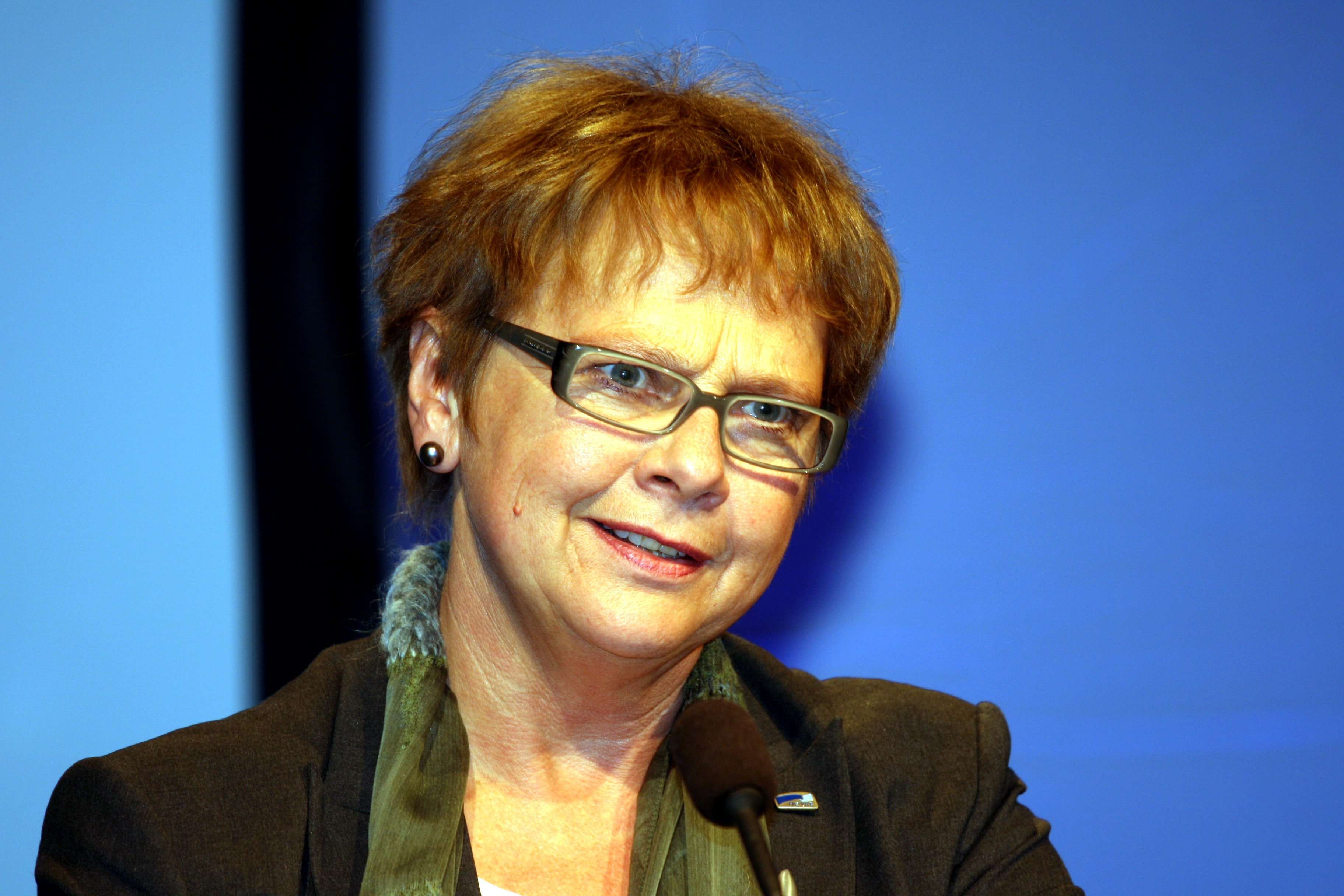 Sonja Irene Sjøli, Norwegian politician (Conservative Party).